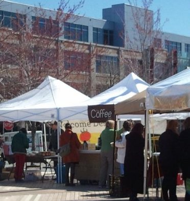 Ship Street Farmers' Market across from the Brown Med-Ed Building